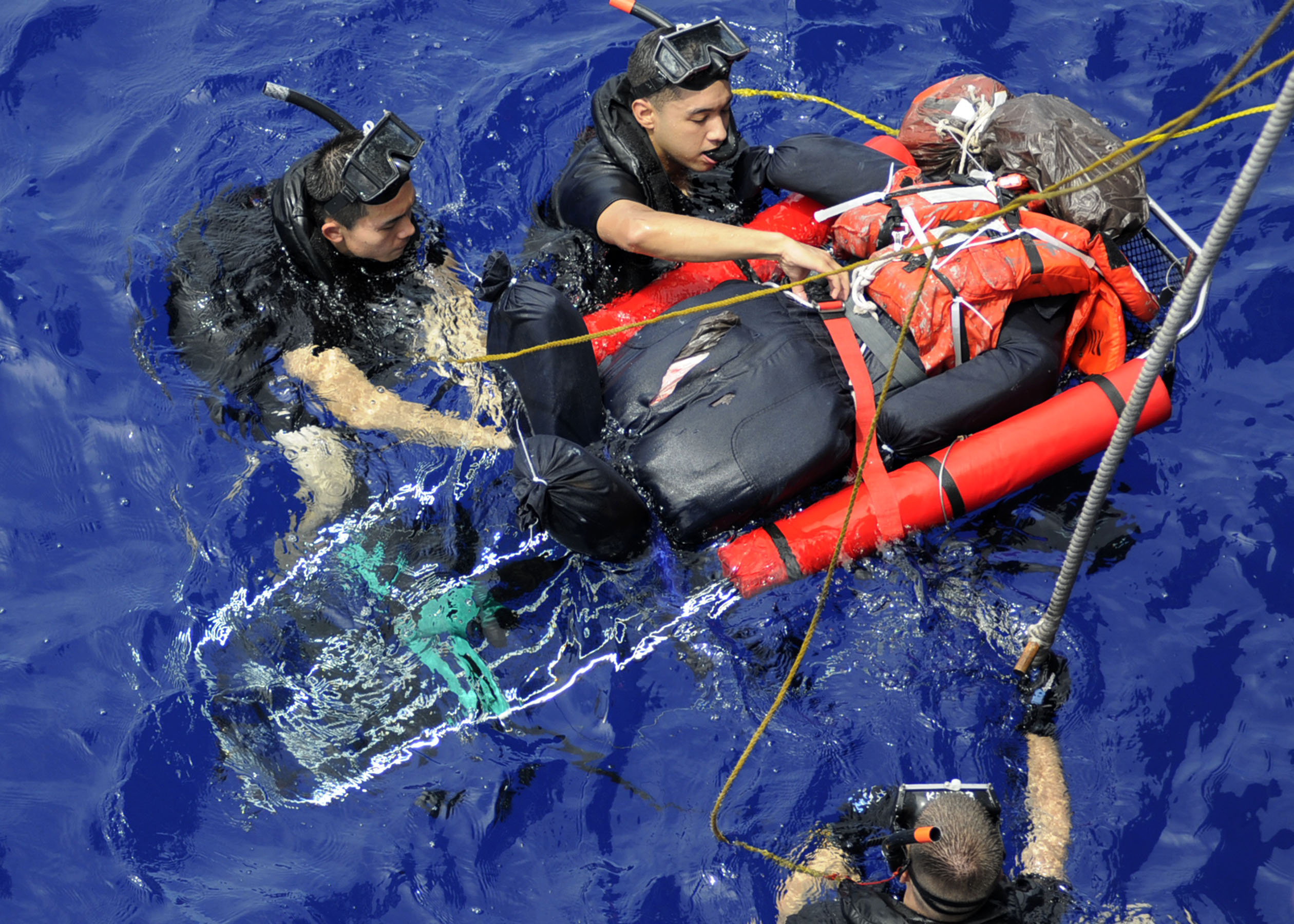 PACIFIC OCEAN (Sept. 11, 2009) Search and rescue swimmers conduct a man overboard drill during seamanship training aboard the amphibious command ship USS Blue Ridge (LCC 19). (U.S. Navy photo by Mass Communication Specialist 3rd Class Charles T. Green/Released)